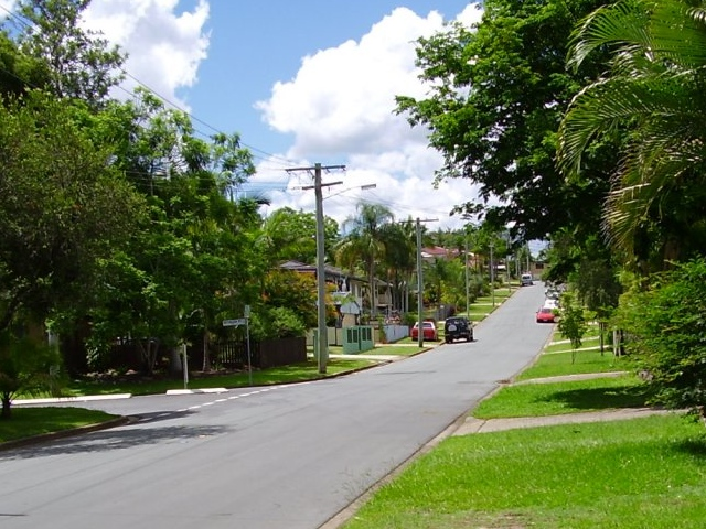 Photo taken by me in December 2004. A street in the suburb of Bray Park.